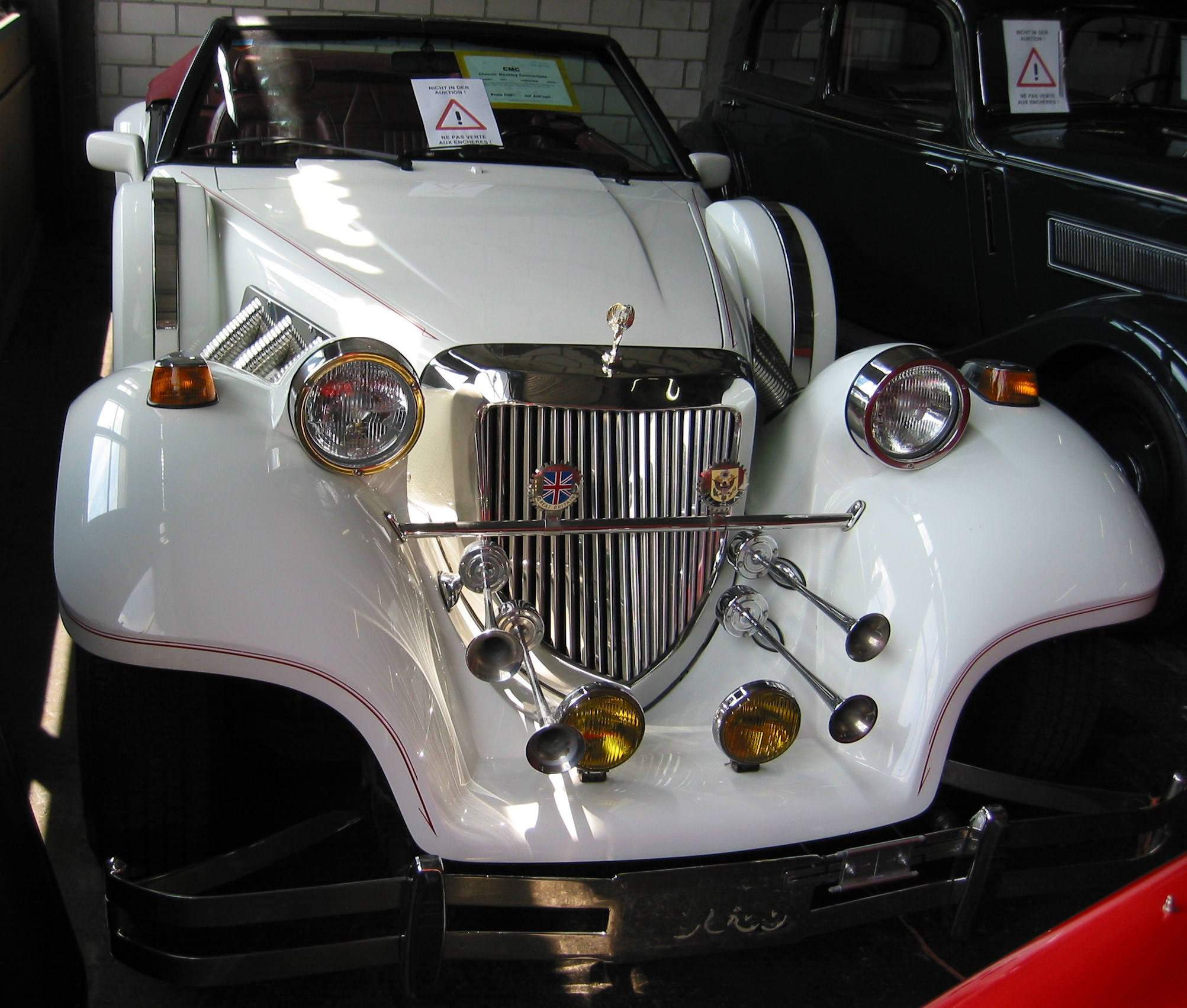 CMC Destiny 1991